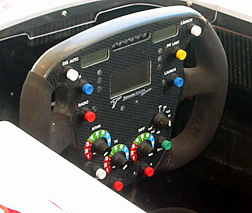 Photograph of a Toyota Formula One car's steering wheel.